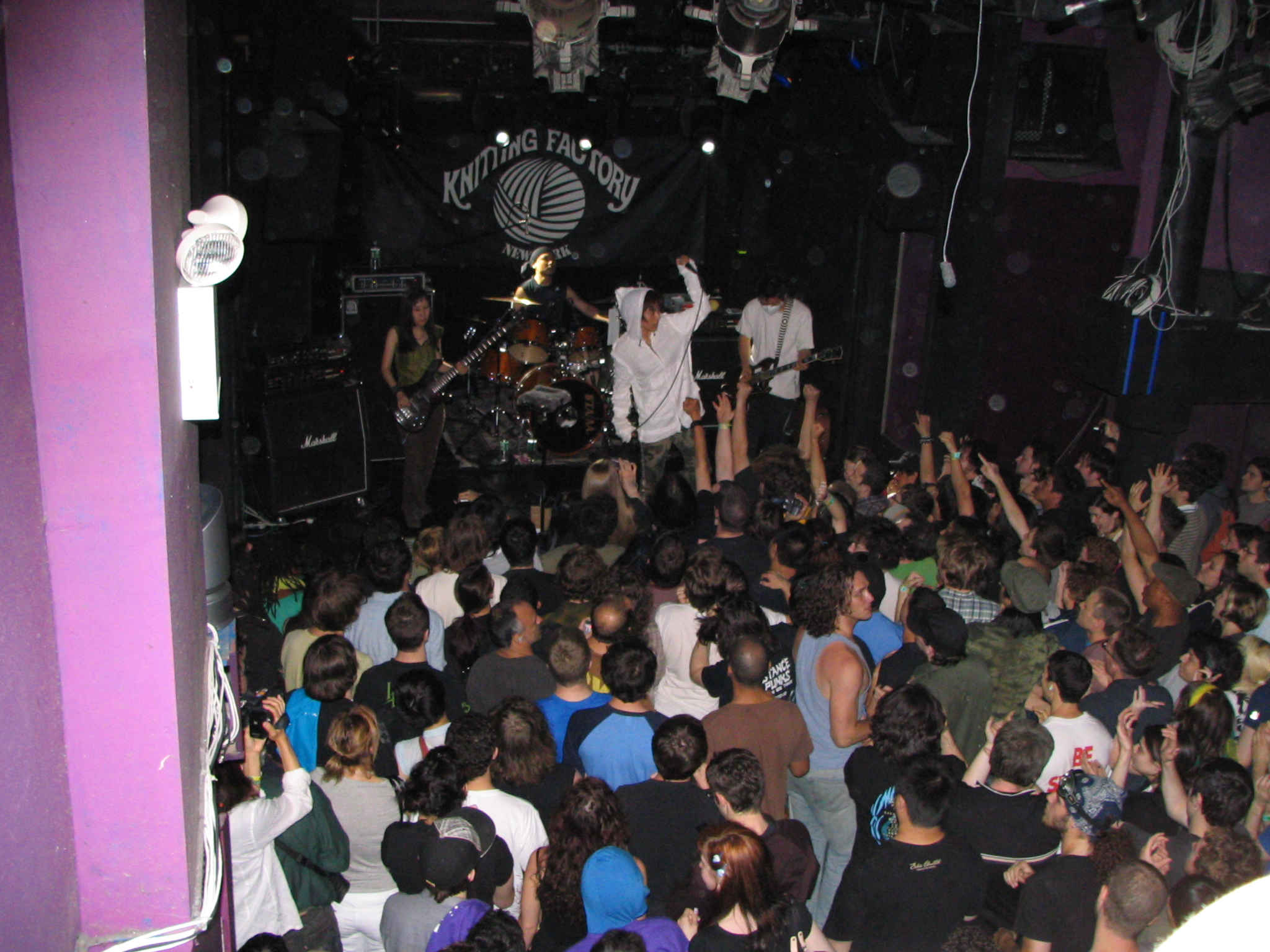 Melt Banana at the Knitting Factory NY.